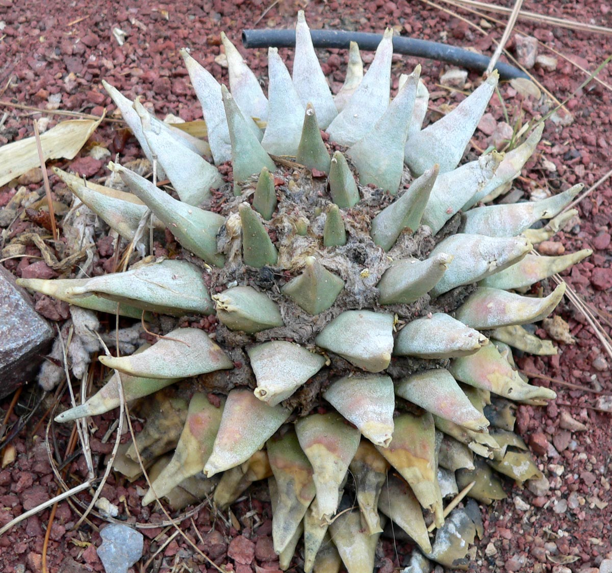 Photo of Ariocarpus retusus at the Springs Preserve garden in Las Vegas